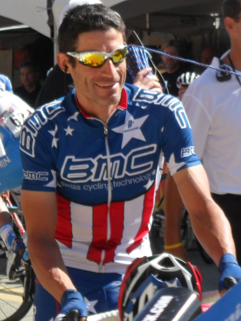 George Hincapie, the USA road cycling champion at the Tour of California in 2010